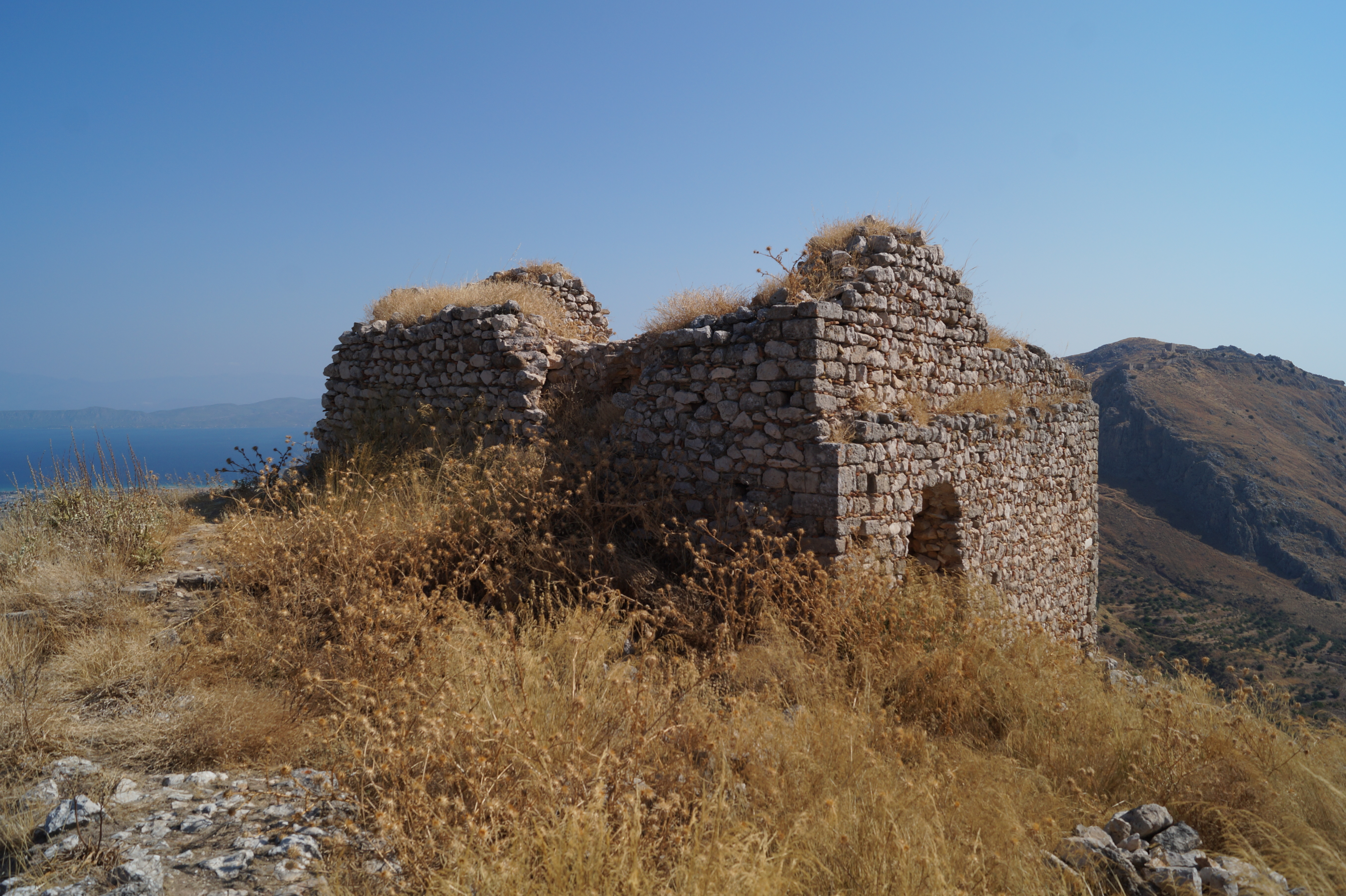 Corinth, Greece: View from west at the tower of Penteskoufi Castle. In the background there is Acrocorinth.